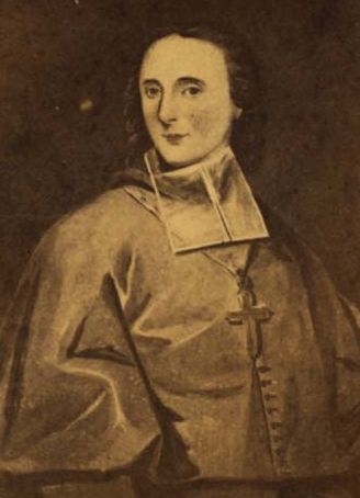 François-Louis de Pourroy de Lauberivière